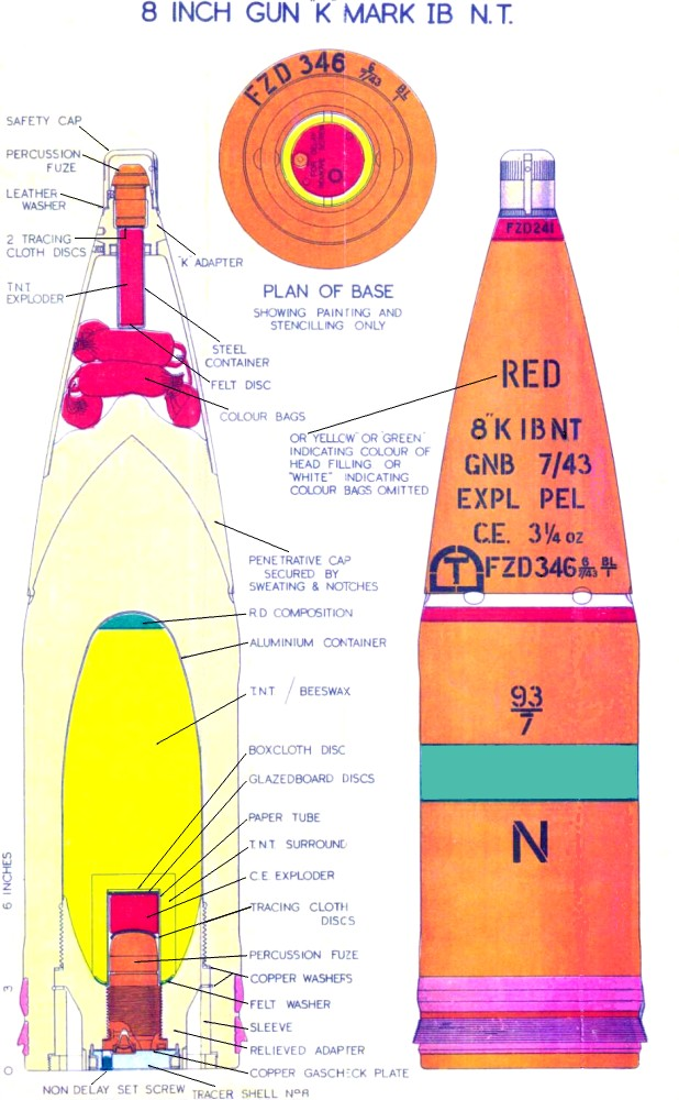 Diagram of British SAPC (semi-armour-piercing capped) shell for BL 8 inch Mk VIII gun, Naval service, World War II. Explanation of markings on shell, top to bottom ,left to right :- RED - colour of dye. K denotes it contains a coloured dye bag for identifying fall of shot. Note nose fuze for dispersing dye. B denotes 6 c.r. head. NT denotes the shell has a night tracer in the base. Hence the base fuze is not flush with the shell base, but is recessed into the shell. GNB denotes the filling contractors initial. 7/43 denotes date shell filled. EXPL PEL C.E. 3 1/4 oz : denotes the exploder is "Composition Exploding", 3 1/4 oz. T inside the semi-circle segment indicates type of tracer shell has fitted. FZD346 denotes serial number of fuze is 346. 6 above 7/43 applies to the fuze : denotes lot number 6, filled July 1943. BL/1 denotes the fuze maker's initial and mark of fuze. The white band above the red band, just below the ballistic cap, denotes SAPC shell. Red band denotes shell is filled. 93/7 denotes filling percentages : 93% TNT, 7% beeswax. Green band denotes primary filling is TNT. N denotes intended for Naval use.